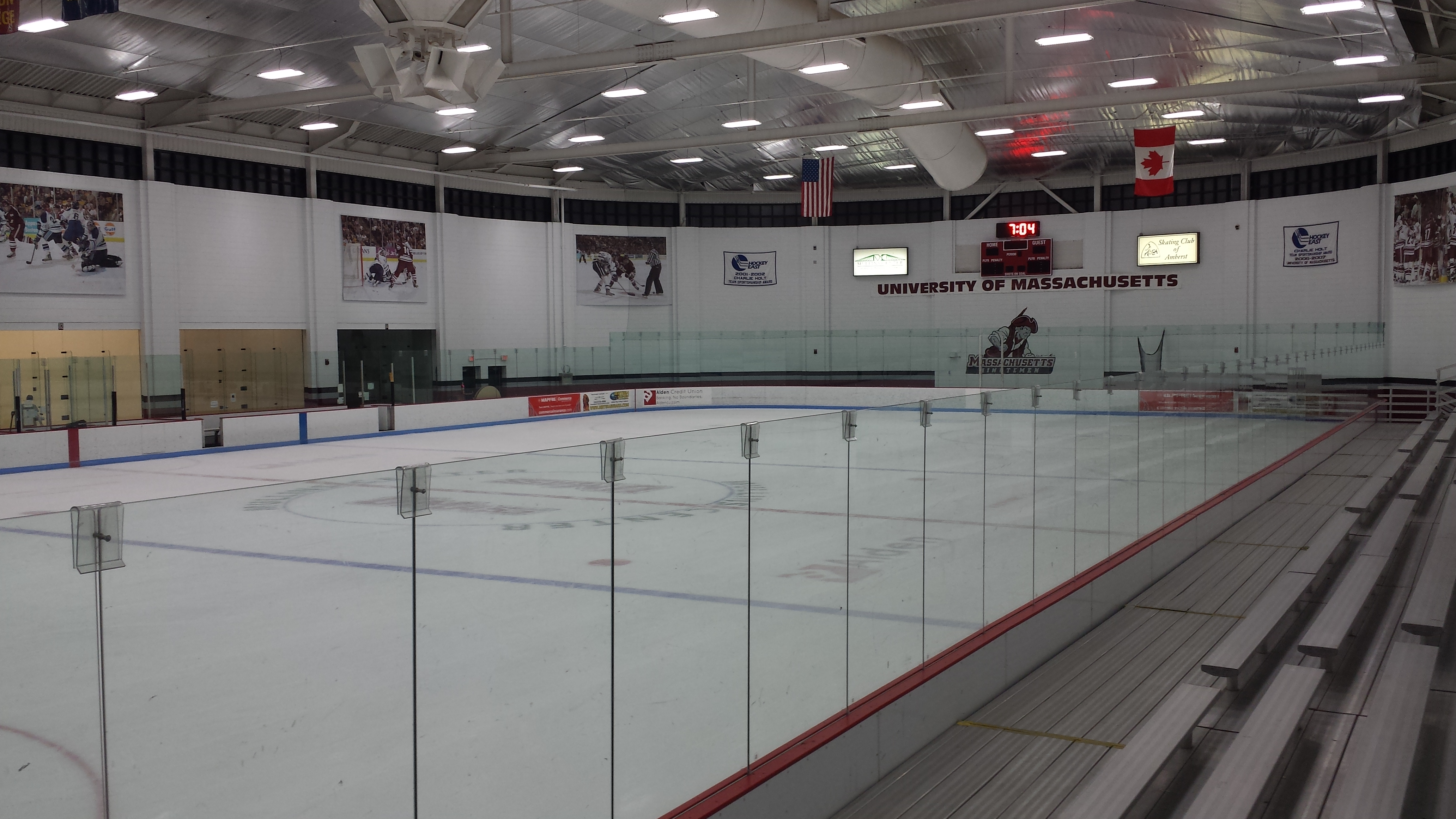 Overview of the community rink at the Mullins Center on the campus of UMass Amherst